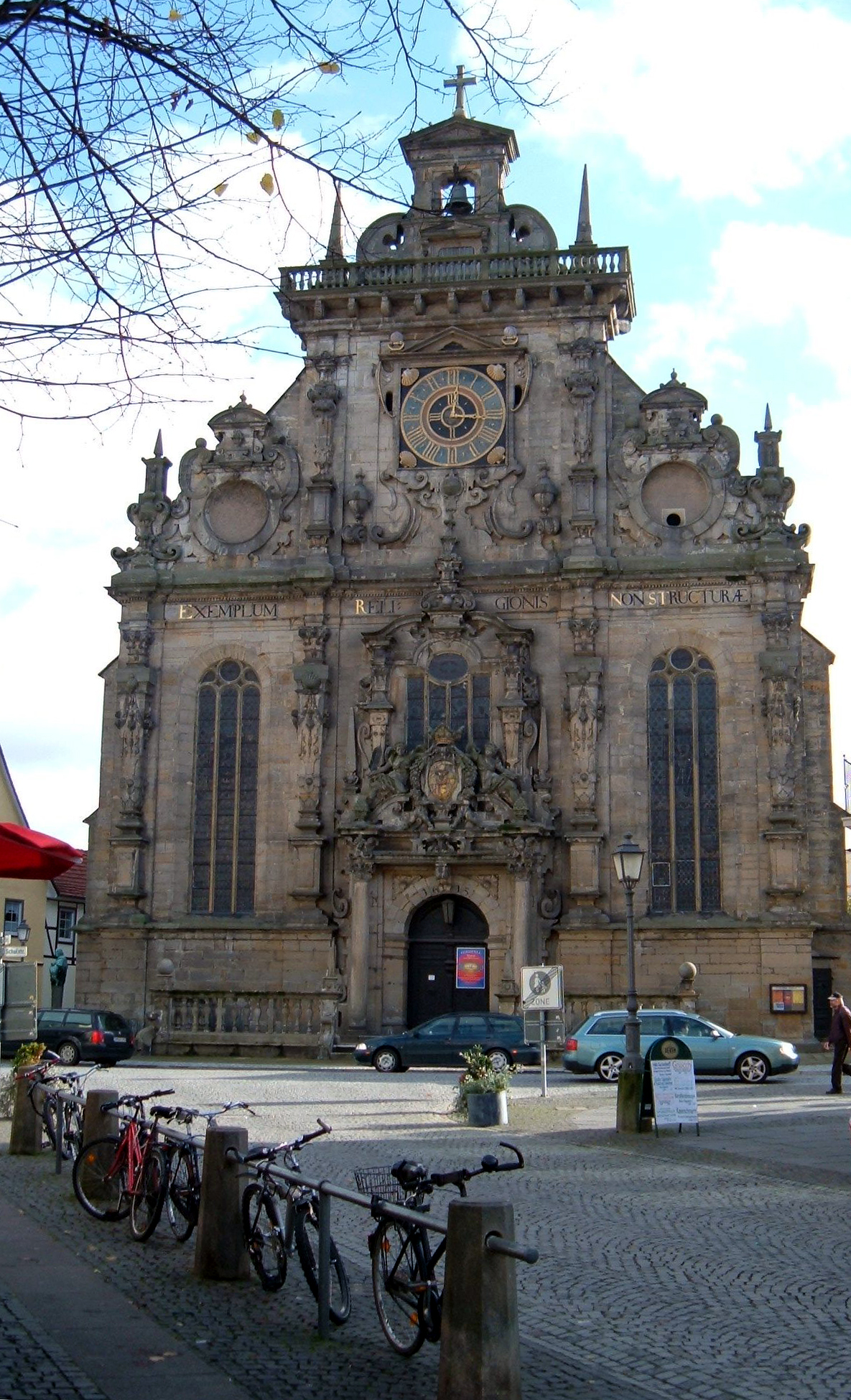 Townchurch in Bückeburg, Germany. Fassade.